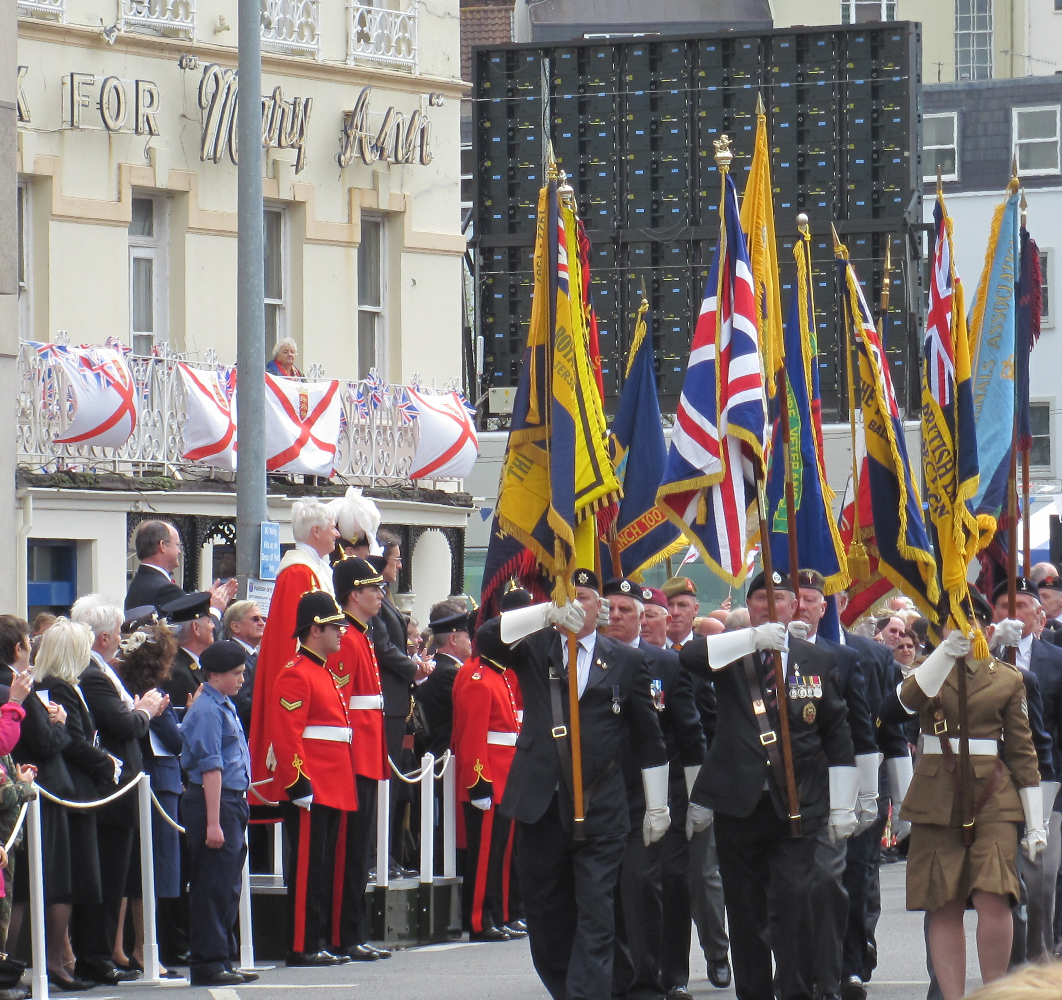 Liberation Day celebrations in Jersey 2012